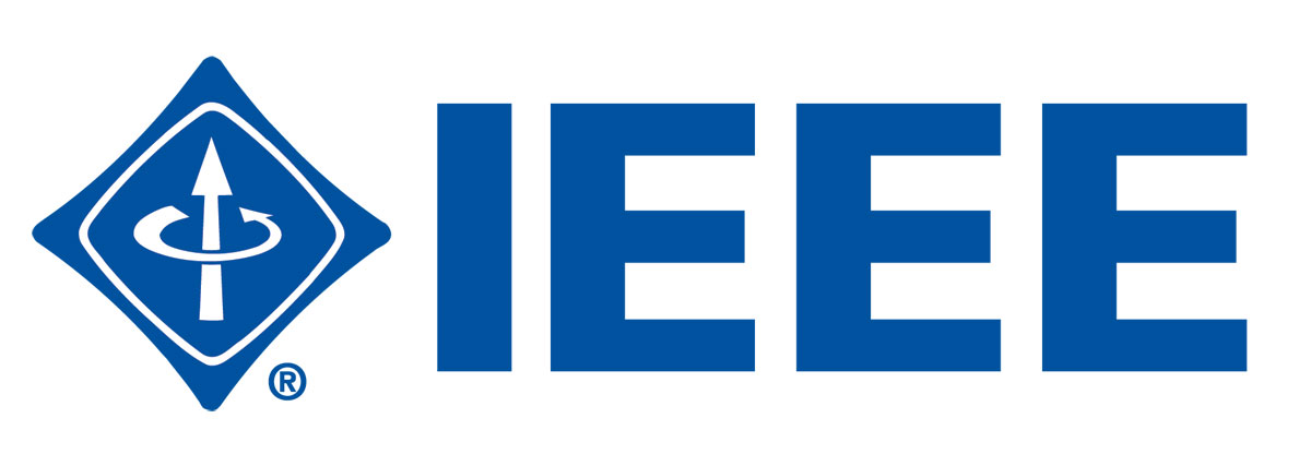 The logo of Institute of Electrical and Electronics Engineers